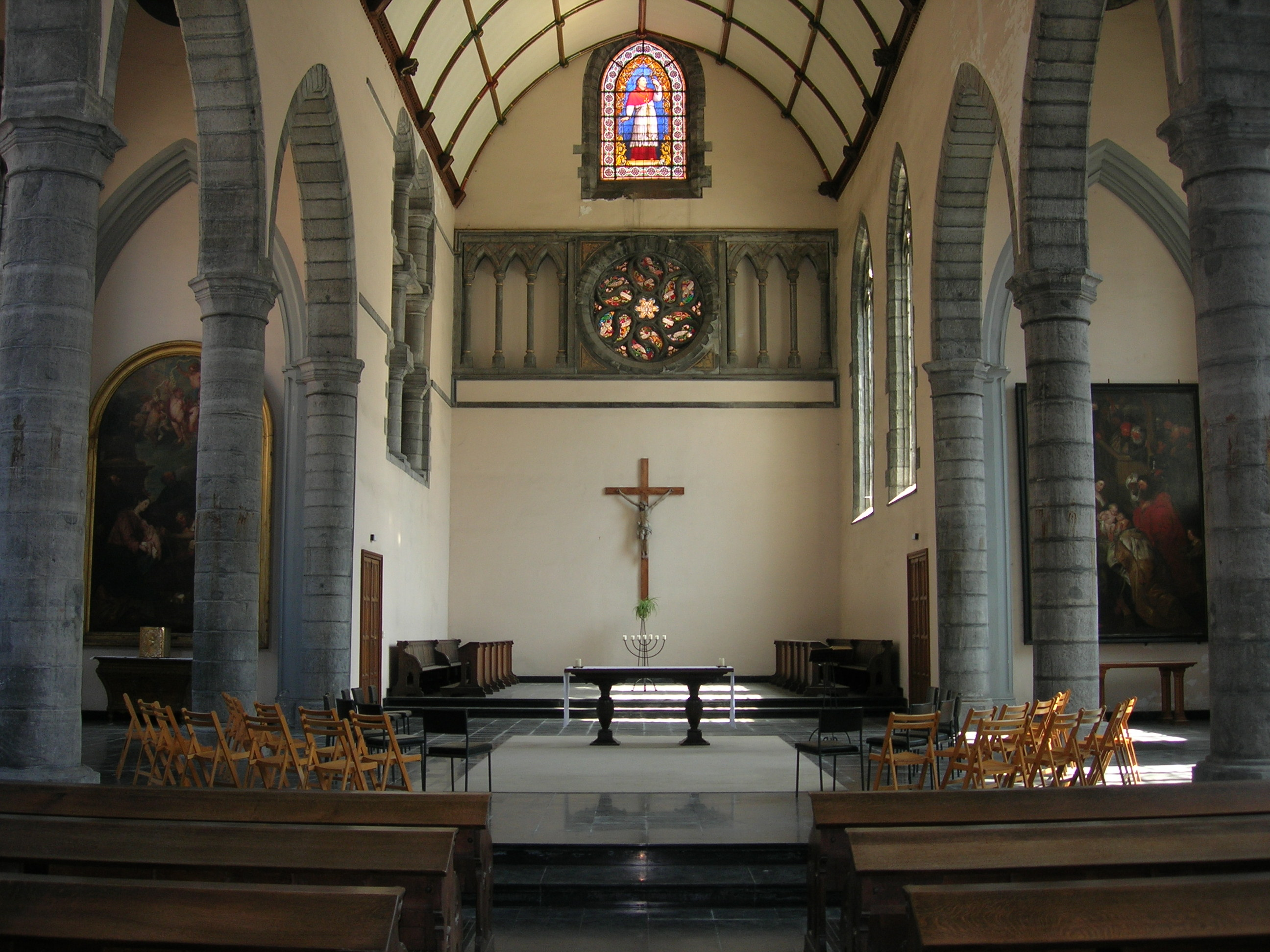 The church of the seminar in Tournai